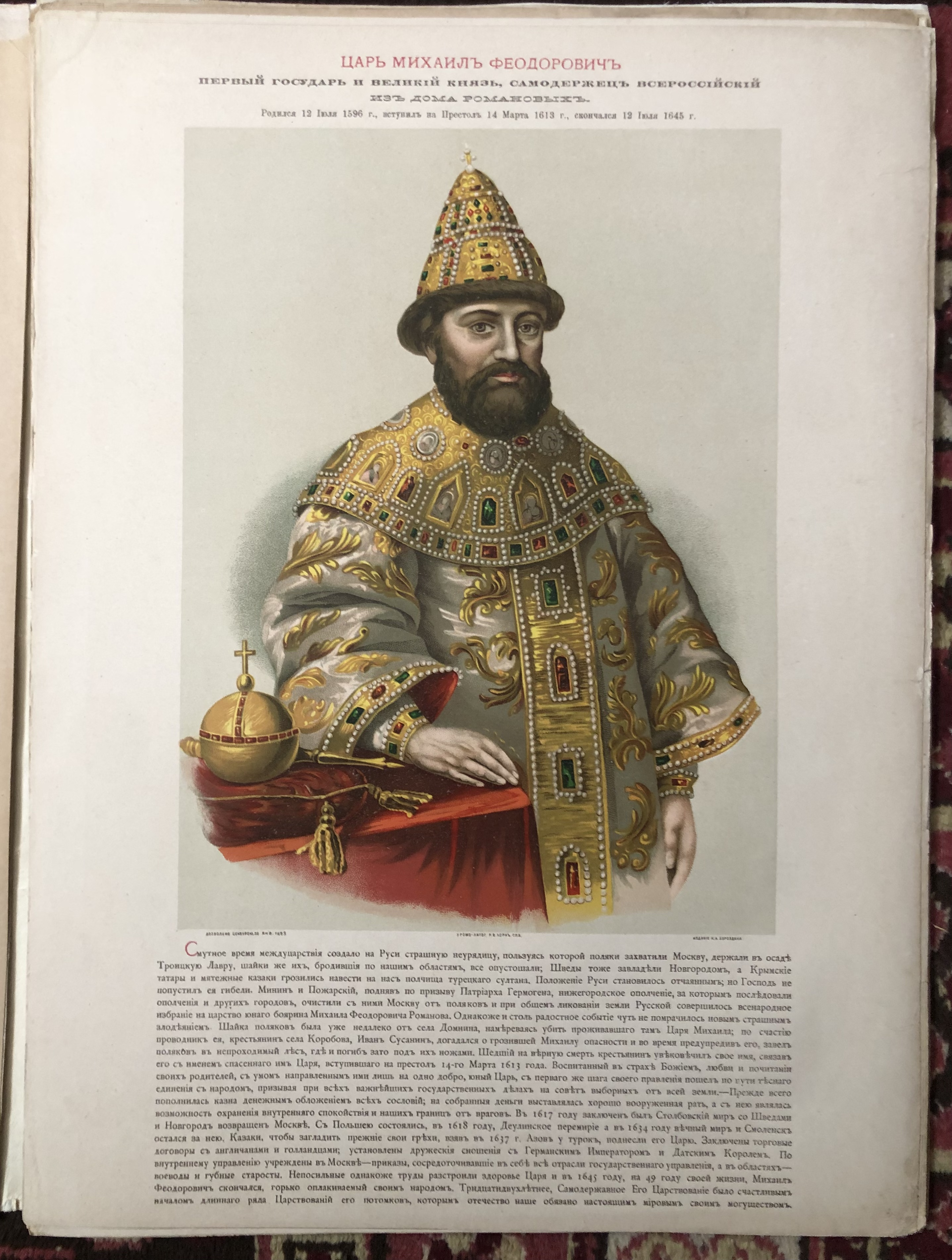 Tsar Mikhail Fyodorovich. From the XVIIth century engraving.